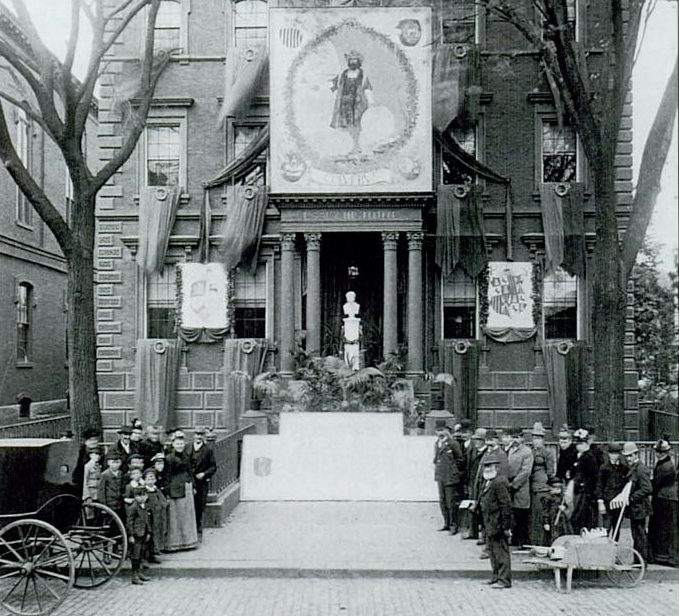 Daland House, Columbus Day, Salem, Massachusetts